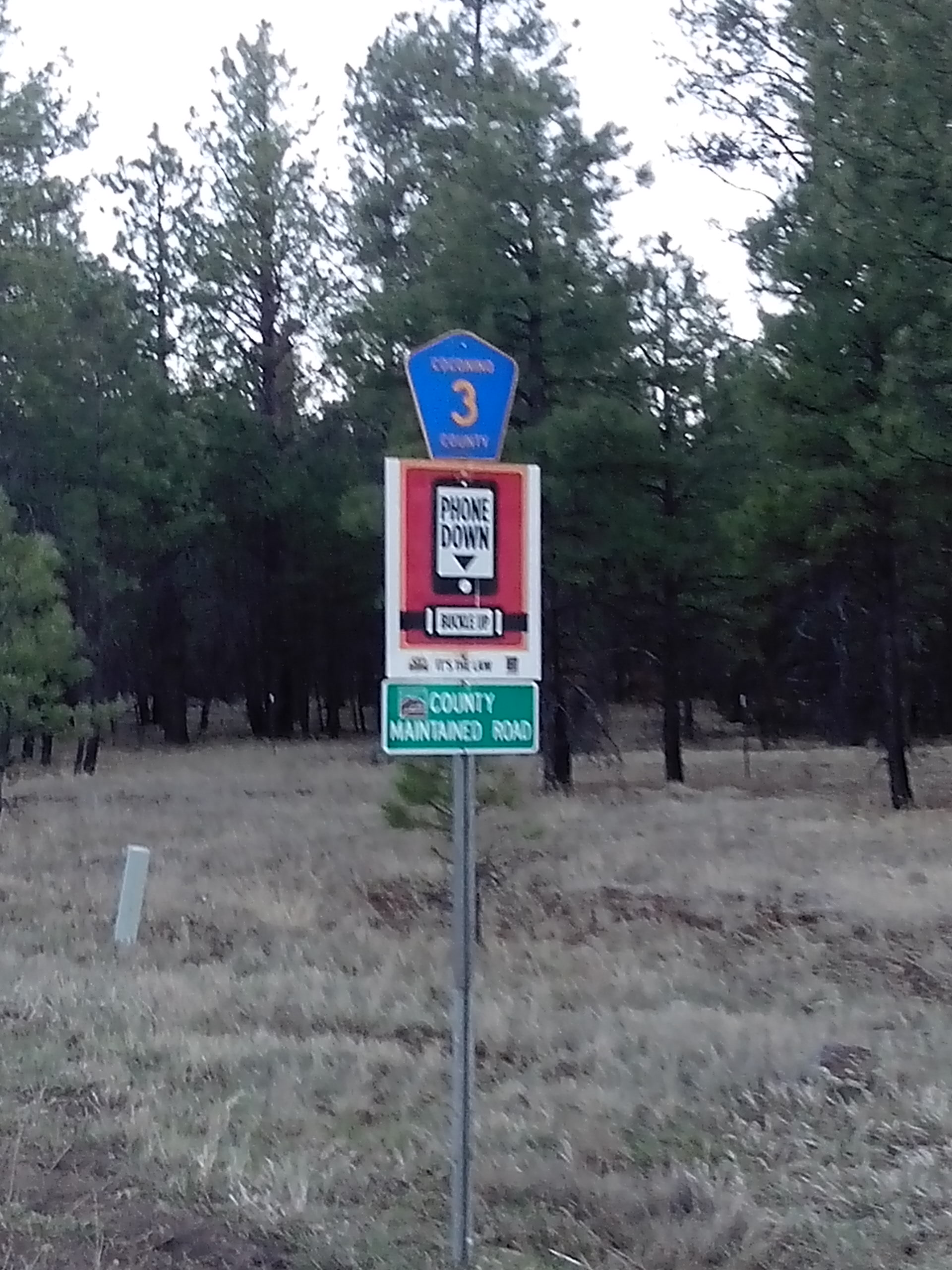 Road sign signifying the north end of CR 3 in Coconino County, Arizona